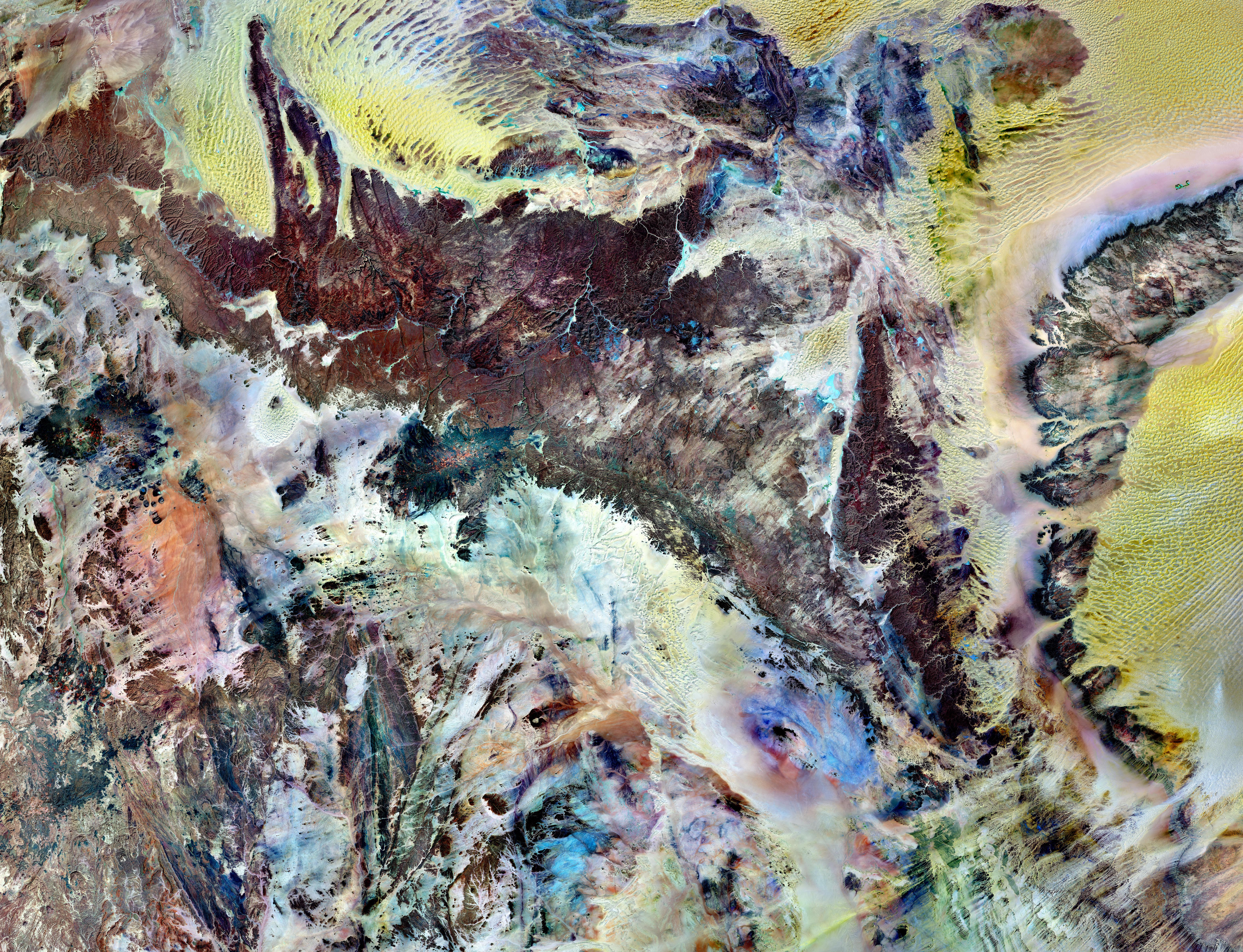 Tassili n’Ajjer National Park covers 72,000 square kilometers (27,800 square miles) in southeastern Algeria. Part of the Sahara Desert, the park has a bone-dry climate with scant rainfall, yet does not blend in with Saharan dunes. Instead, the rocky plateau rises above the surrounding sand seas. Rich in geologic and human history, Tassili n’Ajjer is a United Nations Educational, Scientific and Cultural Organization (UNESCO) World Heritage Site. This image is made from multiple observations by the Landsat 7 satellite in the year 2000. It uses a combination of infrared, near-infrared, and visible light to better distinguish between the park’s various rock types. Sand appears in shades of yellow and tan. Granite rocks appear brick red. Blue areas are likely salts. As the patchwork of colors suggests, the geology of Tassili n’Ajjer is complex. The plateau is composed of sandstone around a mass of granite dating from the Precambrian. Over billions of years, alternating wet and dry climates have shaped these rocks in multiple ways. Deep ravines are cut into cliff faces along the plateau’s northern margin. The ravines are remnants of ancient rivers that once flowed off the plateau into nearby lakes. Where those lakes once rippled, winds now sculpt the dunes of giant sand seas. In drier periods, winds eroded the sandstones of the plateau into “stone forests,” and natural arches. Not surprisingly, the park’s name means “plateau of chasms.” Humans have also modified the park’s rocks. Some 15,000 engravings have so far been identified in Tassili n’Ajjer. From about 10,000 B.C. to the first few centuries A.D., successive populations also left the remains of homes and burial mounds. References Landsat Program. (2011, February 22). Tassili n’Ajjer National Park. Accessed February 28, 2011. World Heritage. (2011). Tassili n’Ajjer. UNESCO. Accessed February 28, 2011.